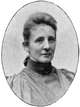 Image scanned from the book "Svenskt Porträttgalleri XX - Arkitekter, Bildhuggare, Målare m.fl. " ("Swedish Portrait Gallery XX - Architects, Sculptors, Painters, ") published 1901